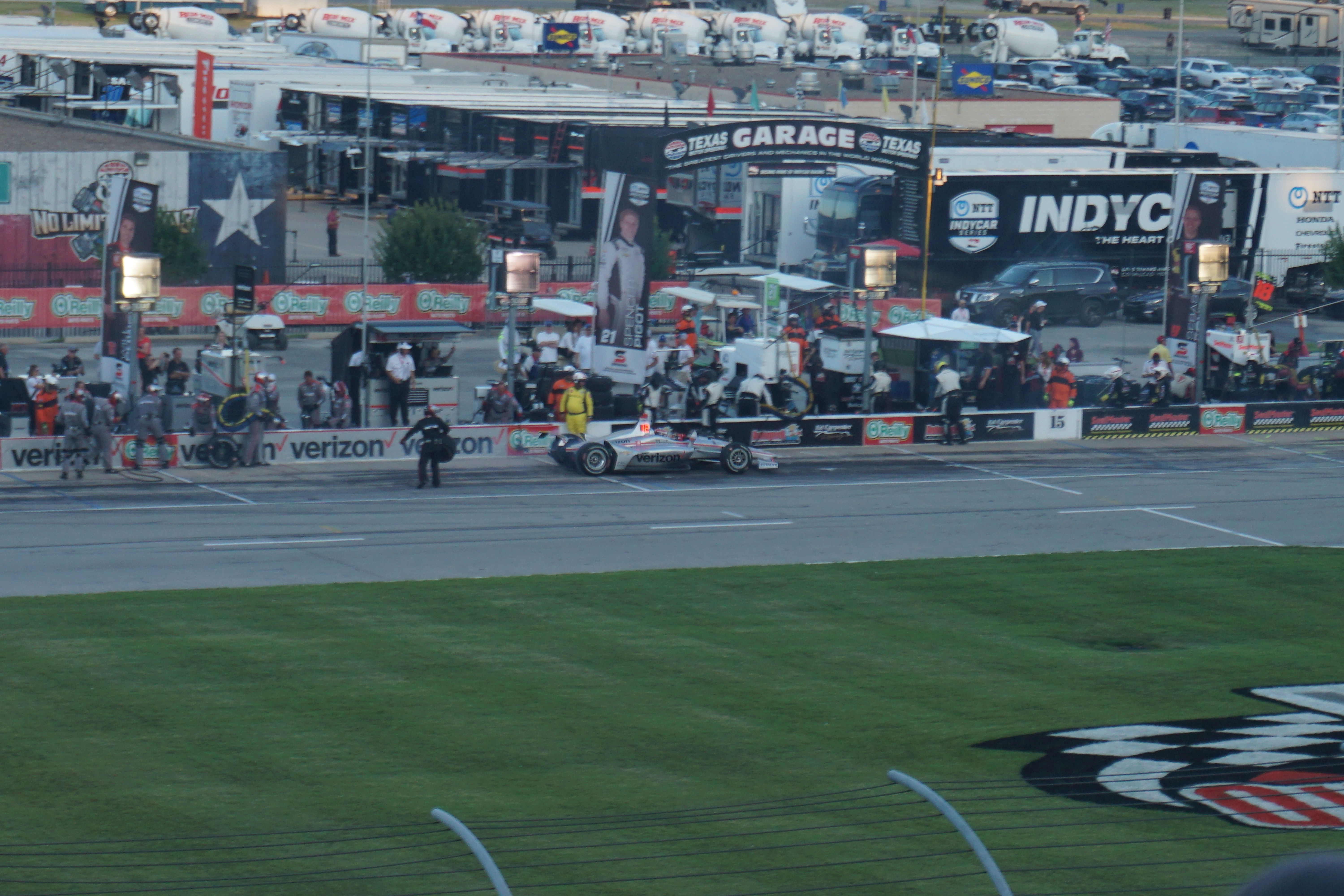 Will Power making a pit stop during the 2019 DXC Technology 600 at Texas Motor Speedway in Fort Worth, Texas (United States).